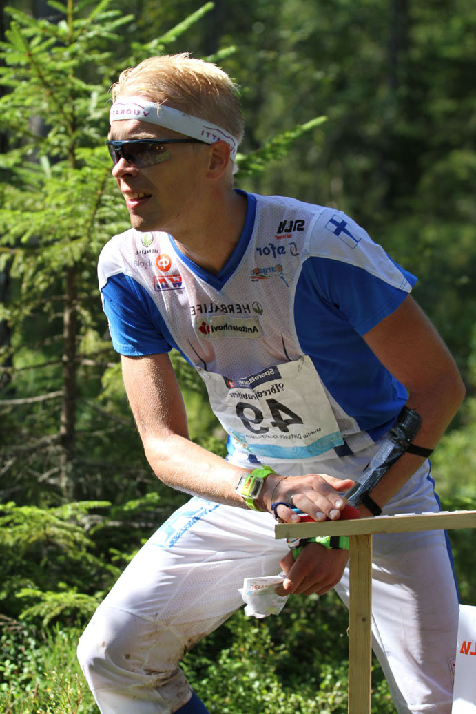 Pasi Ikonen -- orienteer from Finland at WOC 2010 (Middle Distance Qualification)